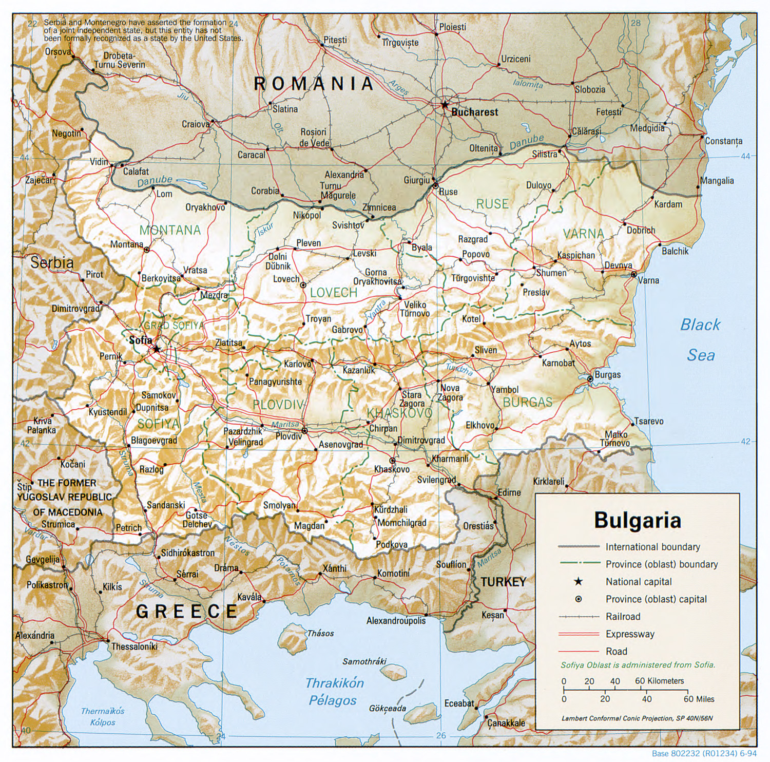 Bulgaria, physical map. NOTES Relief shown by shading. "Base 802232 (R01234) 6-94". Also issued without shaded relief. Scale [ca. 1:3,500,000] ; Lambert conformal conic proj. (E 220--E 290/N 450--N 410).